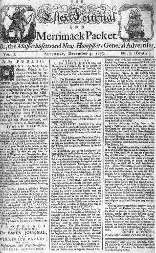 Essex Journal.; Date: 12-04-1773; (Newburyport, Massachusetts) Further information: American Antiquarian Society. Catalog.